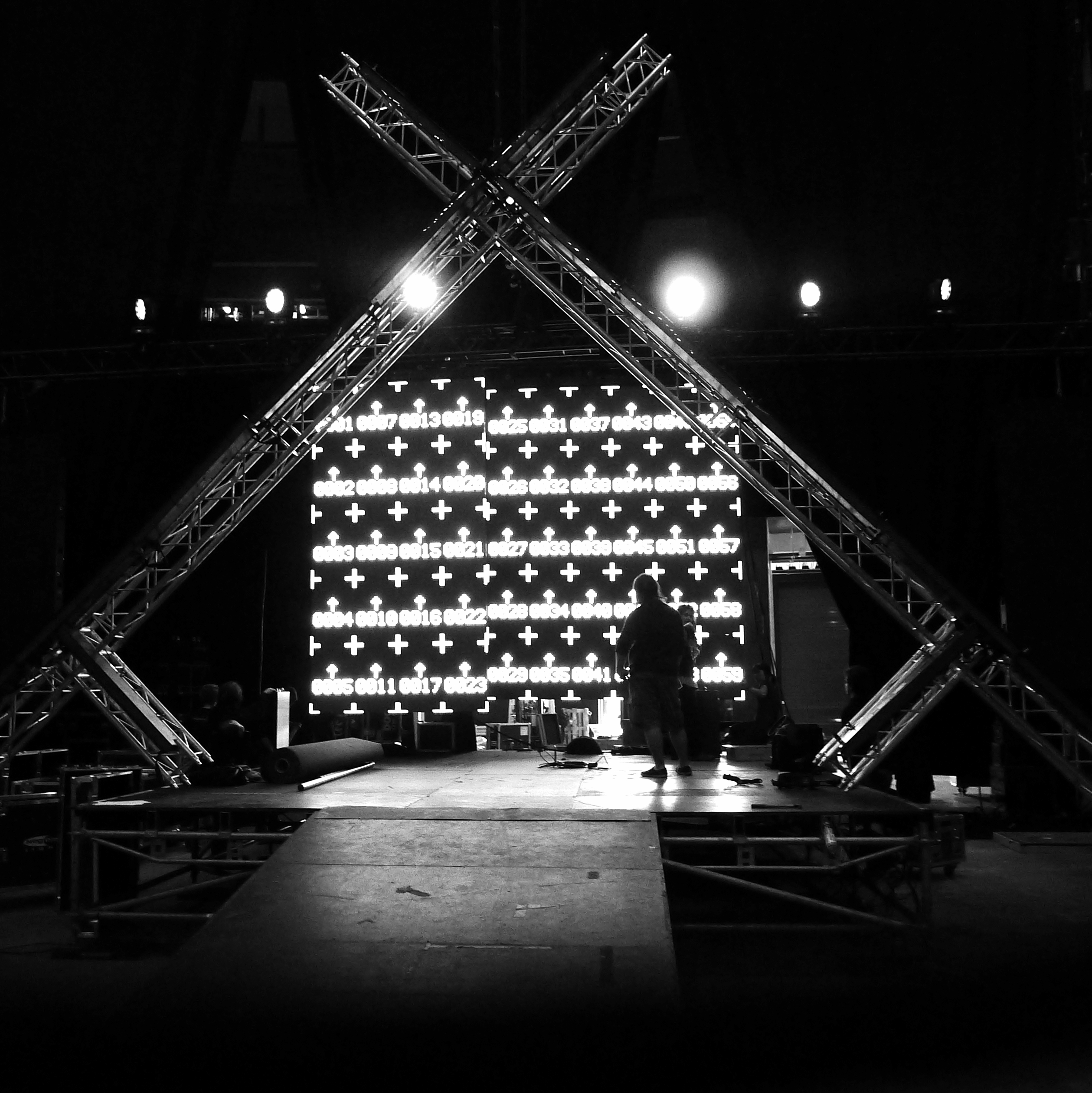 The stage and ramp for a WWE House Show